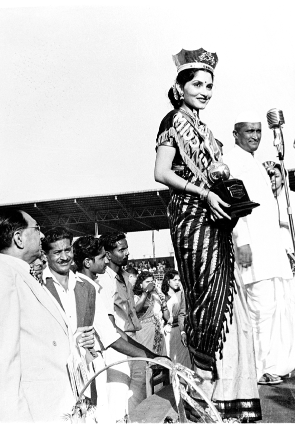 XPDEAM/April.52,A57h(Common Caption as for No. XP26905).Photo shows “Miss India” – Mrs. Indrani Rehman of Calcutta – with Mr. S.K. Patil, ex-Mayor and President, BPCC, after having been crowned.